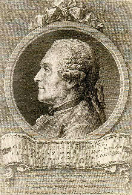 Charles-Marie de La Condamine, French astronomer and explorer (engraving).